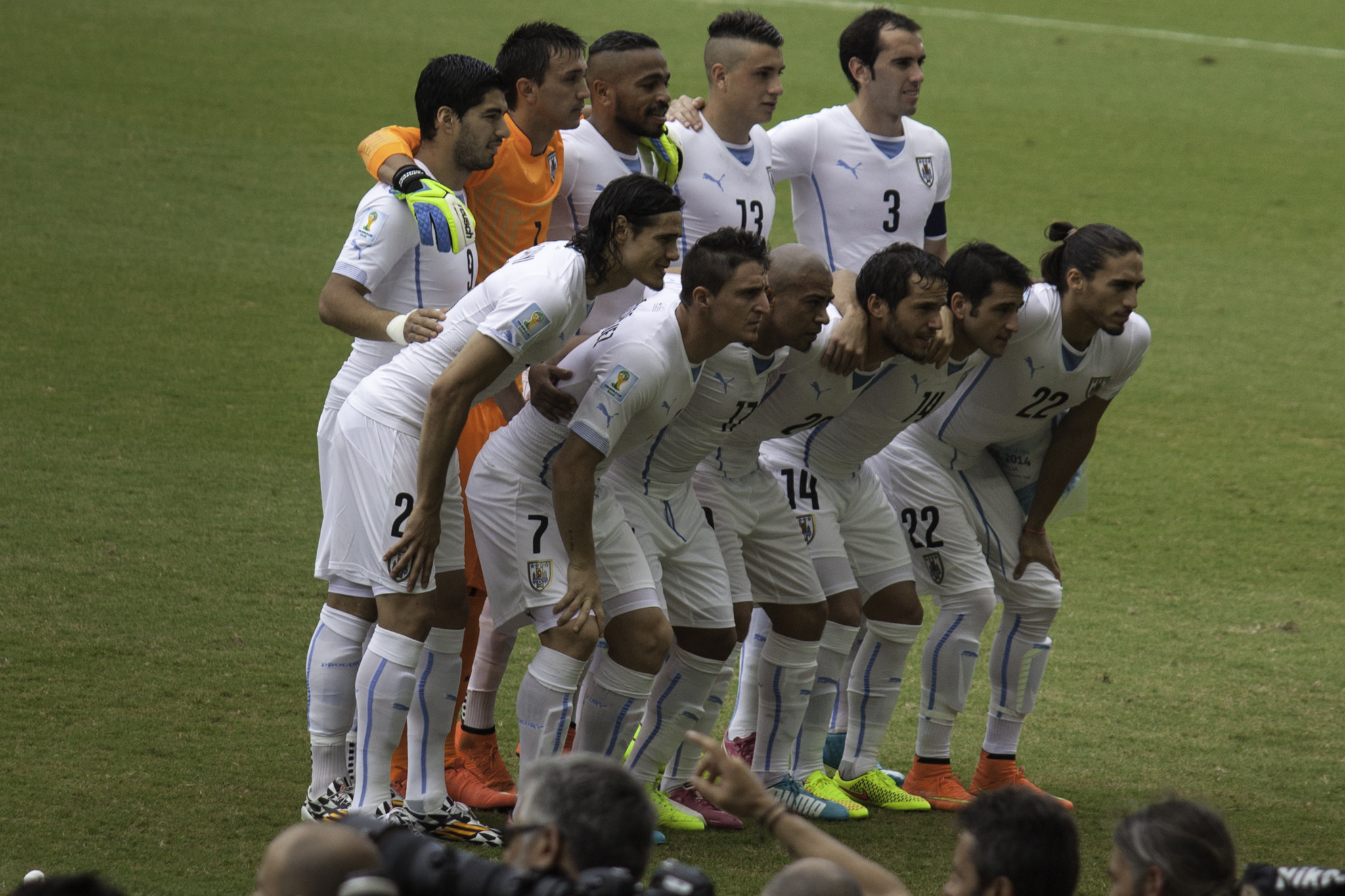 Italy and Uruguay match at the FIFA World Cup 2014-06-24, Arena das Dunas, Natal, Brazil.